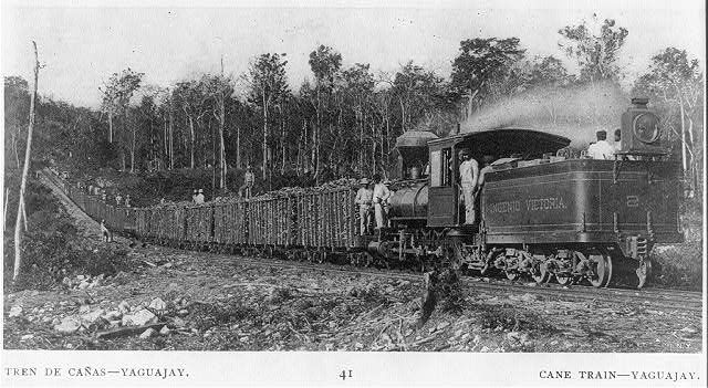 Sugar cane train in Yaguajay, in 1901 — in present day Sancti Spíritus Province, central Cuba.